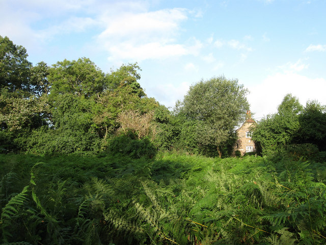 Ditchling Common Small section wedged between the railway, the B2112 and Hopkin's Crank and other houses to the west. The area was once the site of the common's former pound where stray or escaped animals were kept until their owners reclaimed them for a small fee. The building beyond the bracken is Woodbarton Cottage.